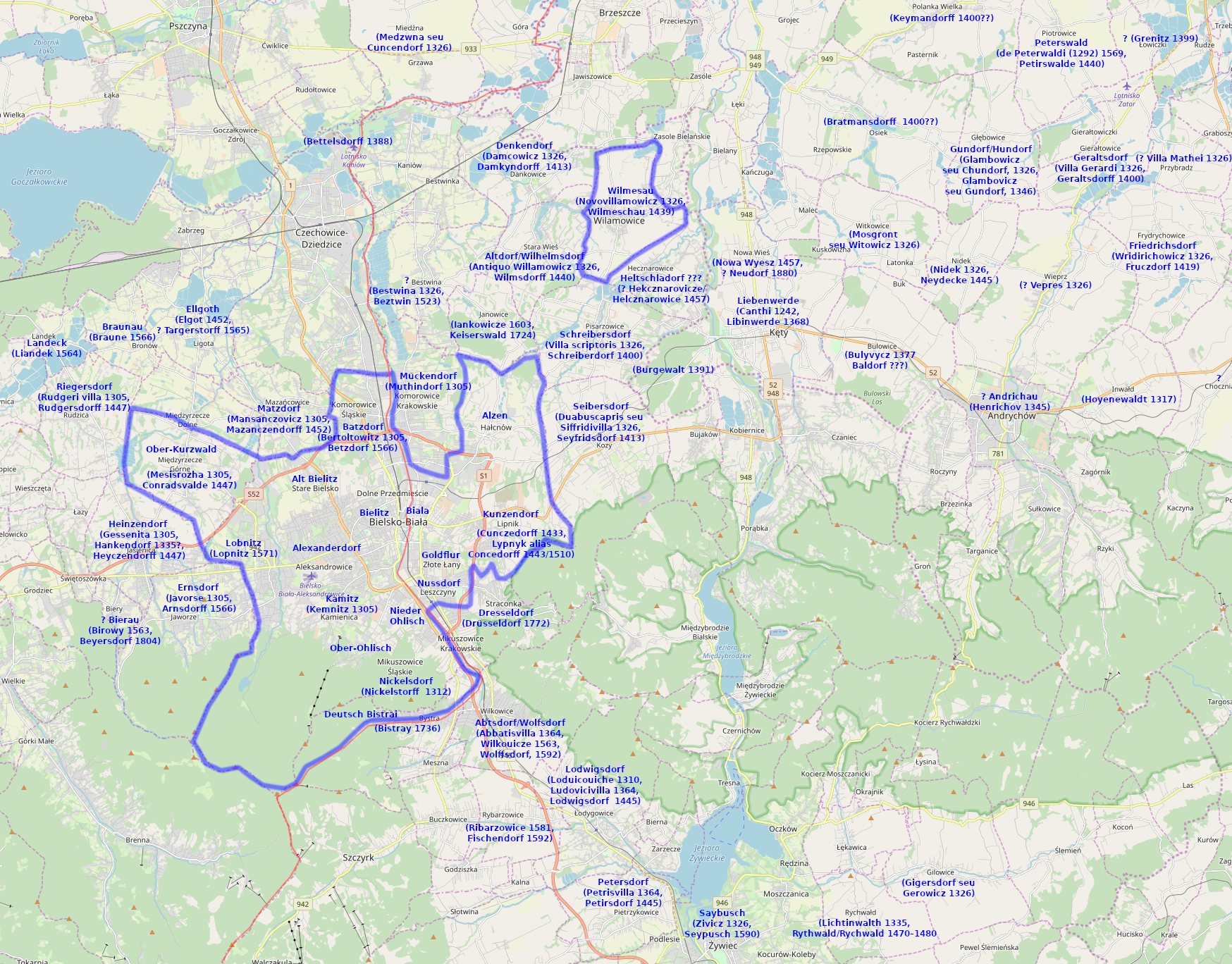 Bielsko-Biała German language island before WW2 (blue line), with some possible Walddeutsche settlements from the middle ages and later. The red line is the border between Silesia and Lesser Poland since the early 16th. Modern Bielsko-Biała borders in pink. Based on File:GermanHamletsSince15th.jpg and Liste mittelalterlicher Walddeutscher Siedlungen and [1], also: Robert Mrózek, Nazwy miejscowe Śląska Cieszyńskiego, 1984, and others. It is important to note that many of the mentions in German or Latin (which could indicate mixed population) were ephemeral or with only a singular occurence among numerous Slavic/Polish mentions [maybe because the scribe in Auschwitz/Oświęcim was German at the moment, or the ruler of a Slavic village was a German nobleman]. The Kurt Lück's map from 1934 was obviously exaggerated.